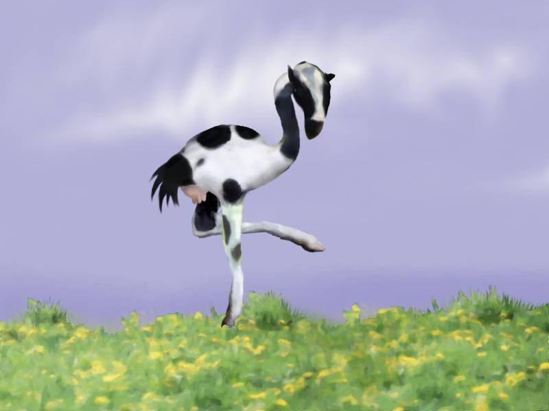 fictional creature, drawn for a joke article on the Stupidedia